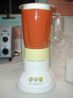 Making carrot juice with my blender.